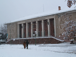 Chitalishte (house of culture) in Perushtitsa, Bulgaria